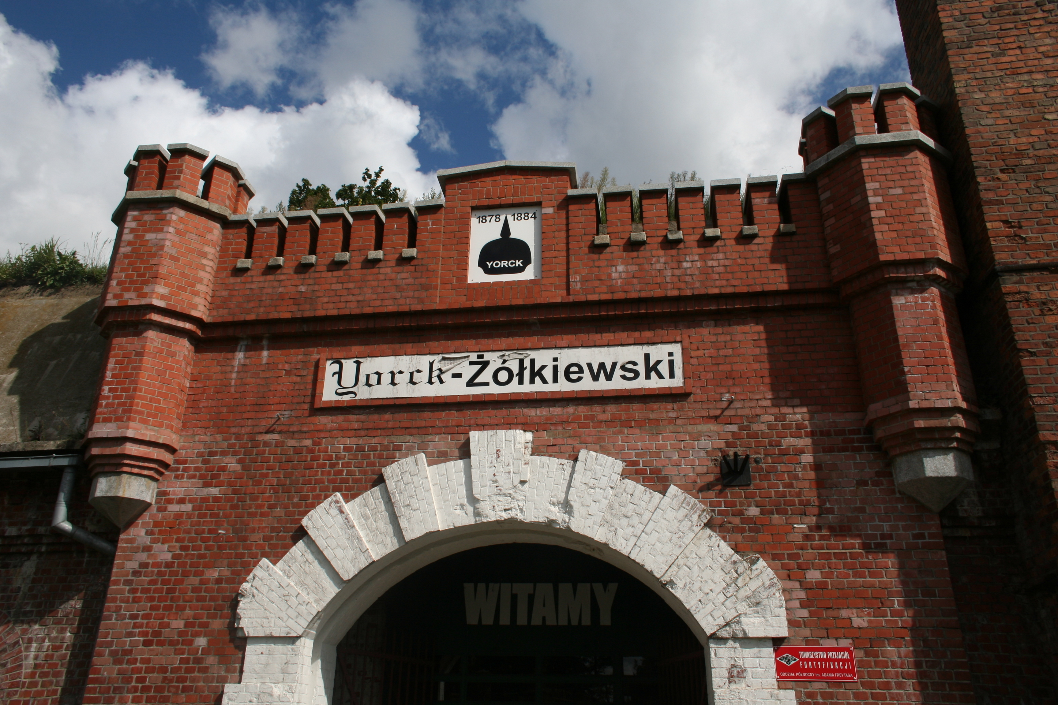 Toruń, Fort IV, entrance gate